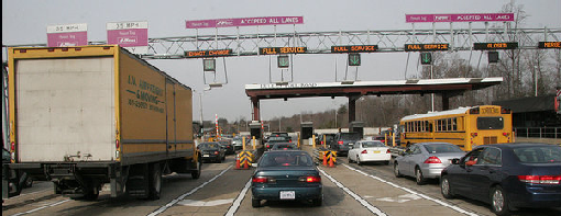 Dulles Toll plaza